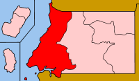 Map of Equatorial Guinea showing Litoral province.